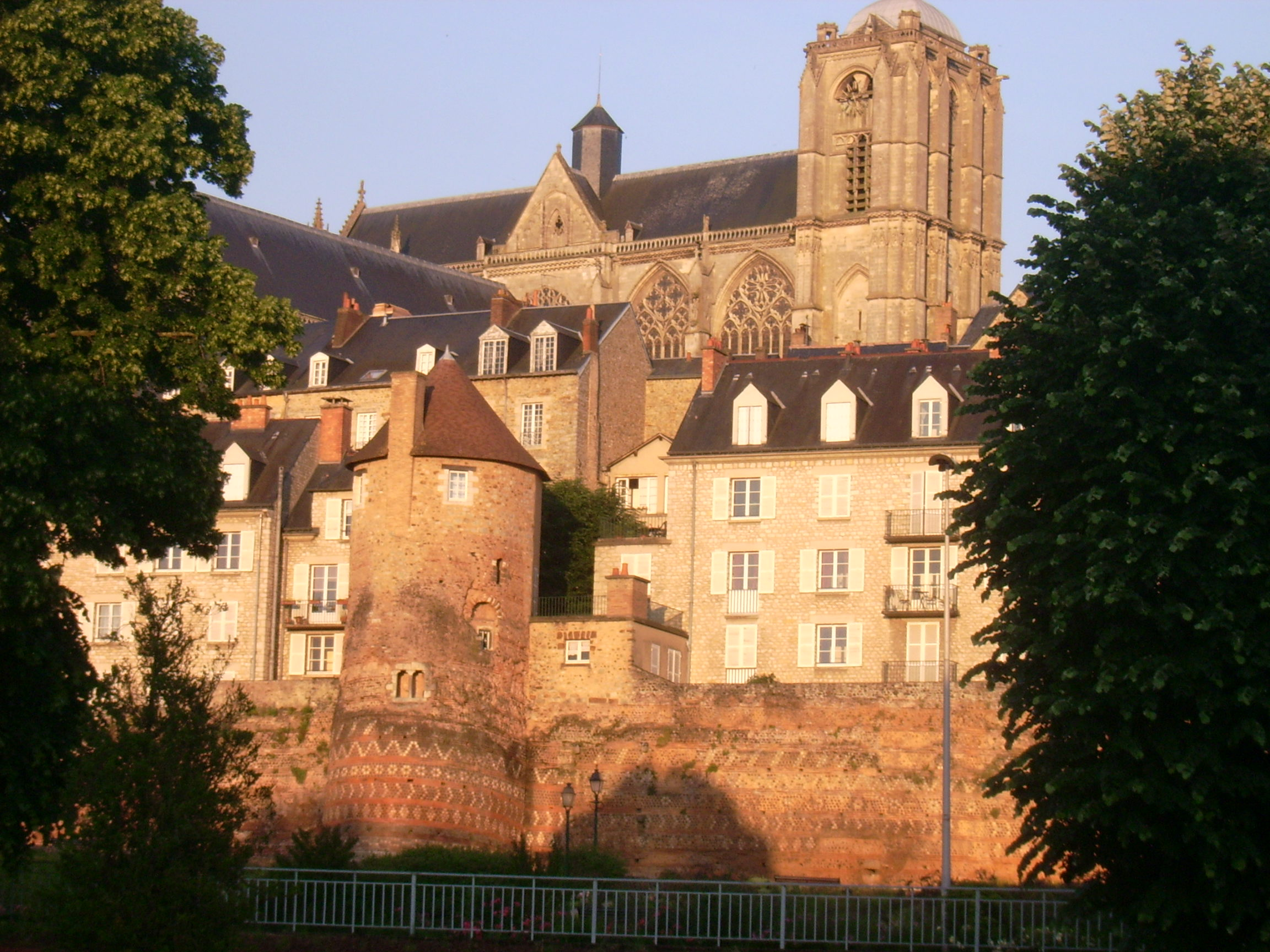 The St Julien's cathédral and theGallo-Romain walls of Le Mans.